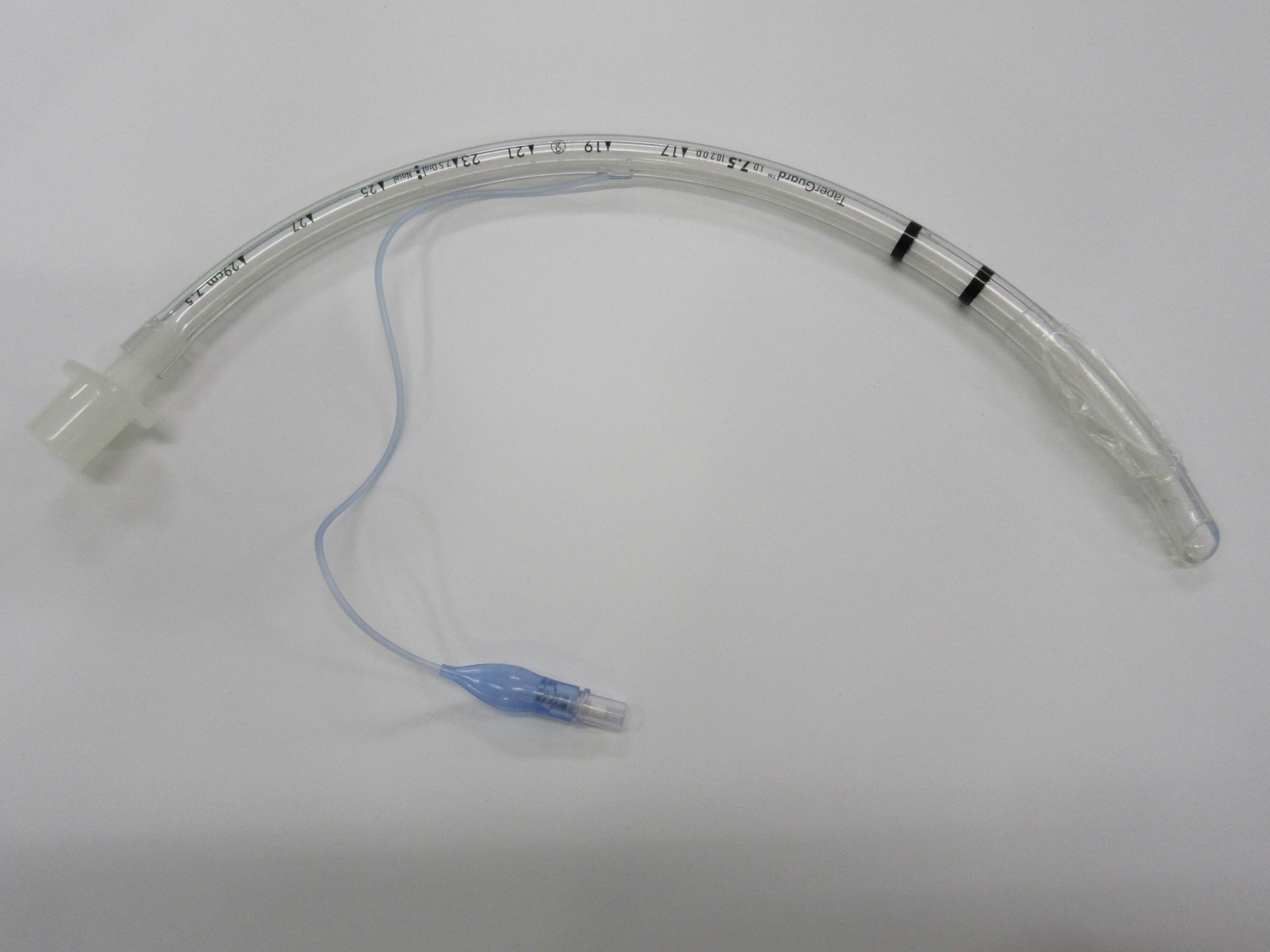 Endotracheal Tube